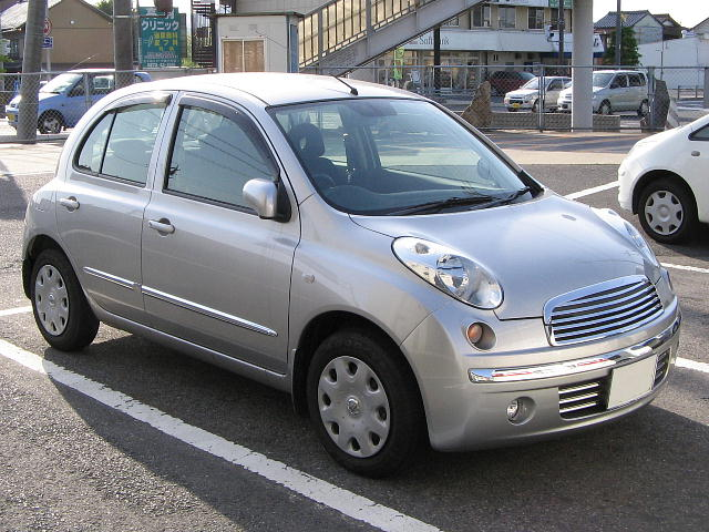 Nissan "March rafeet" (K12 / 3rd generation) 2005/8-2007/6